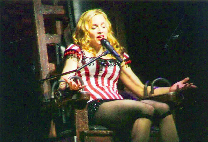 Photo taken at one of the concerts in 2004